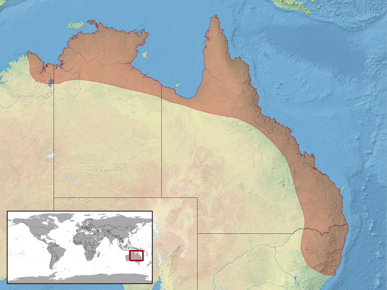 geographic distribution of Gehyra australis (Native: Australia (New South Wales, Northern Territory, Queensland, Western Australia))